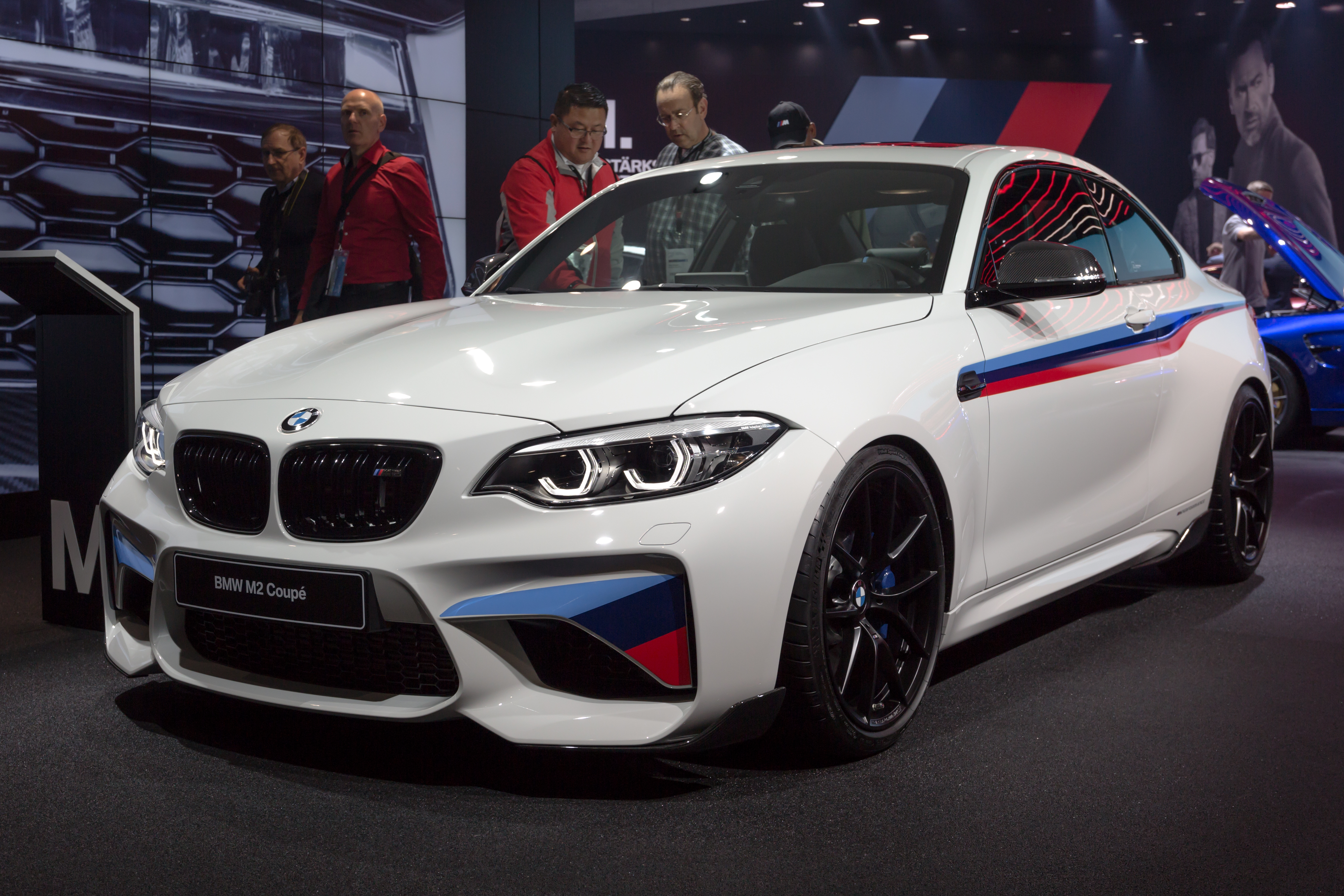 BMW M2 M-Performance, IAA 2017